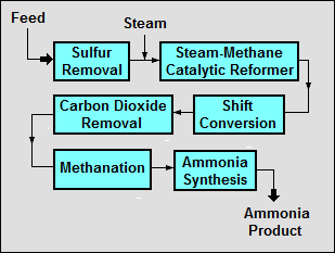 Block flow diagram of an ammonia synthesis industrial plant.